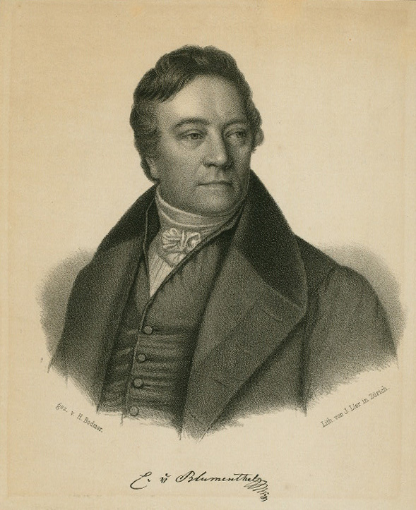 Portrait of Casimir von Blumenthal (1787–1849), Belgian violinisst and conductor who worked in Switzerland